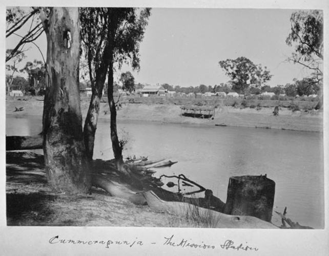 Looking across the Murray River to the Mission Station at Cummeragunja. There is a shelter covered with branches on the far bank. Photograph - by A.J. Campbell, Echuca, Victoria, 1893 (Note that although the label on the photo calls it a mission station, it was always an Aboriginal reserve, never a mission.